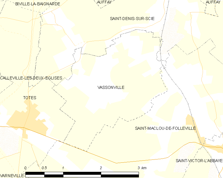 Map of French municipality Vassonville